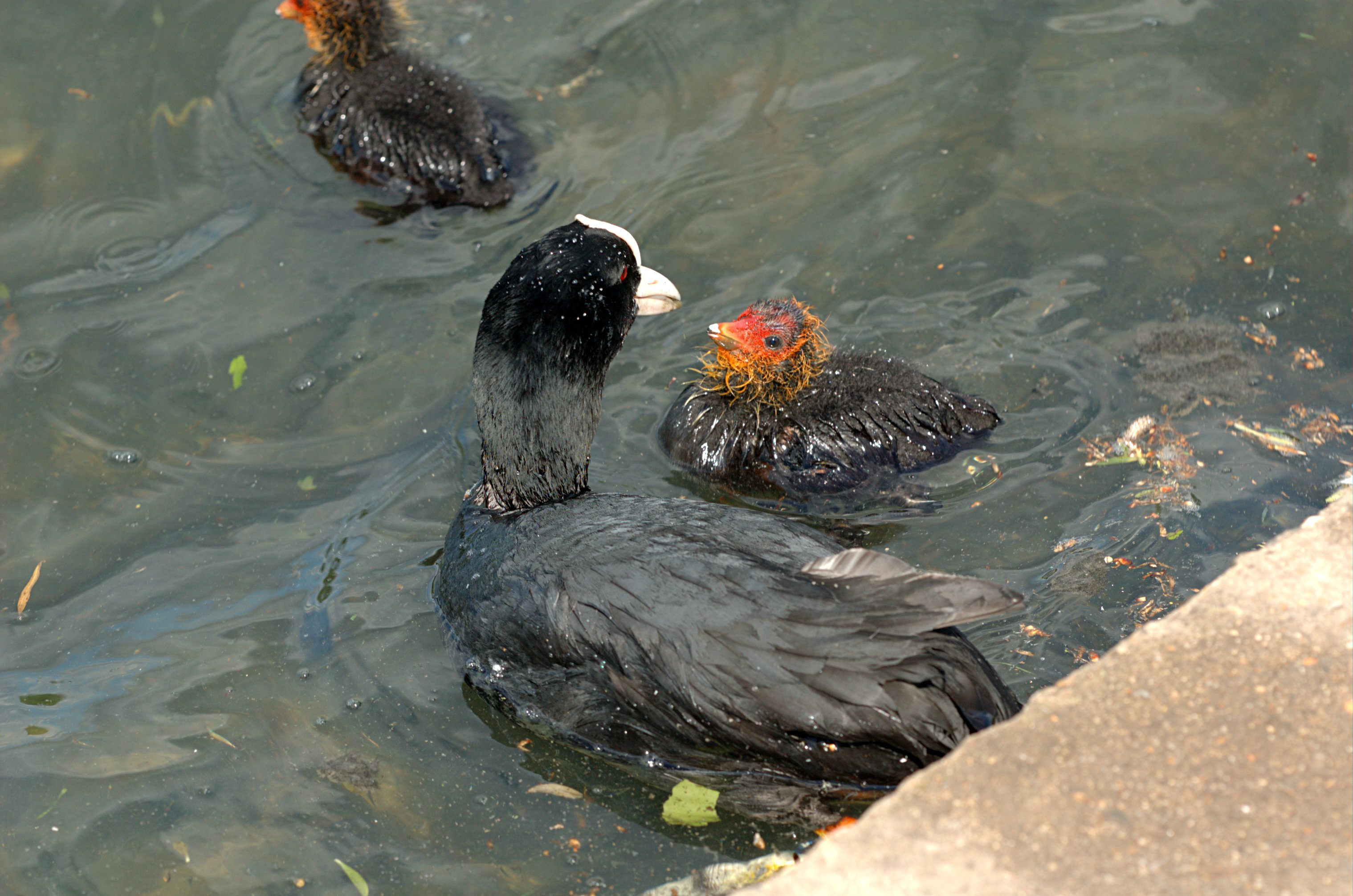 Eurasian coots, Fulica atra, parent feeding its chicks at Verulamium Park, St Albans, Hertfordshire, England.